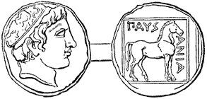 Silver coin (160 g) of Pausanias, king of Macedonia.